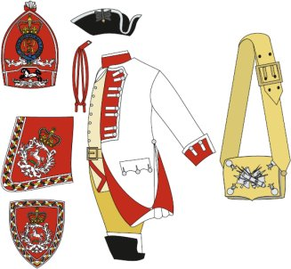 Dachenhausen Dragoons Uniform Plate